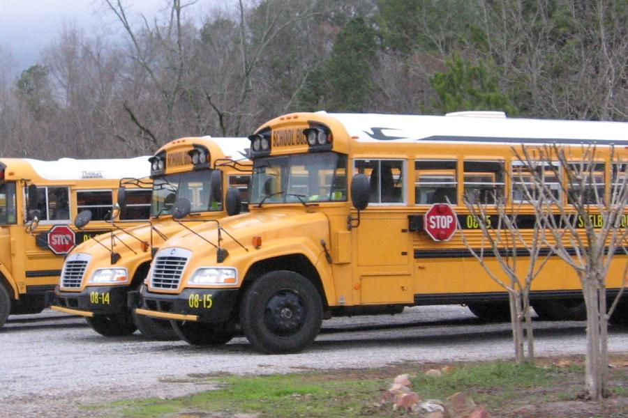 Front profile view showing sharply slanted hood of a 2008 Blue Bird VISION conventional school bus operated by the Shelby County, Alabama Board of Education in Helena, Alabama.